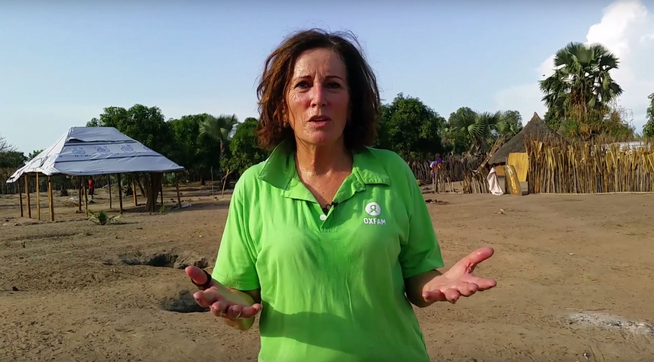 Video still of Helen Szoke in Nyal, South Sudan, talking to camera about impending famine in 2017